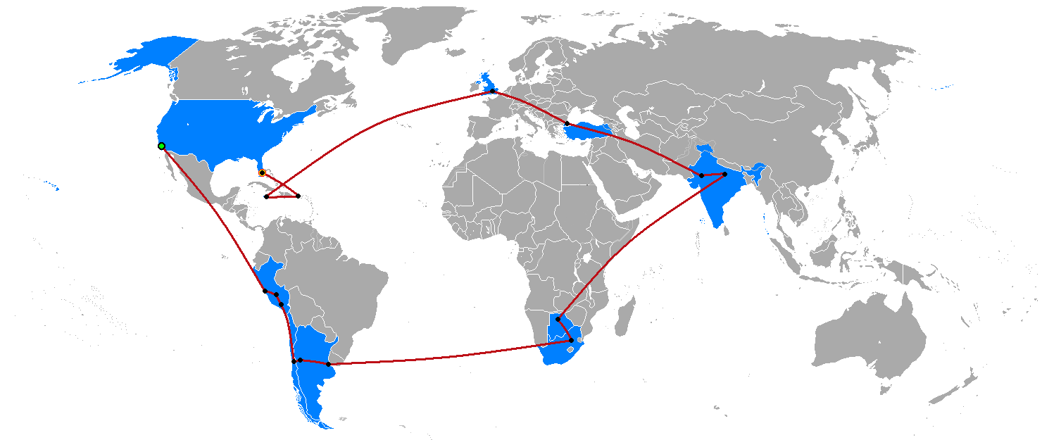 The Route Map of The Amazing Race 4, recreated with black dot leg stops